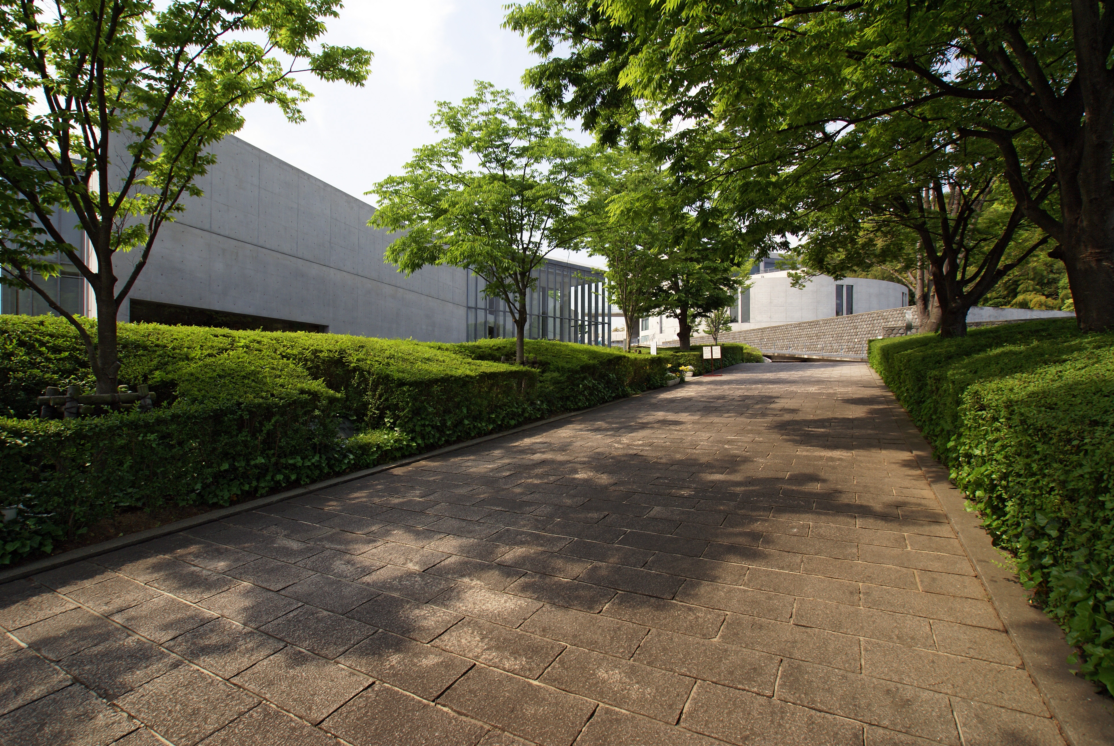 Himeji City Museum of Literature in Himeji, Hyogo prefecture, Japan